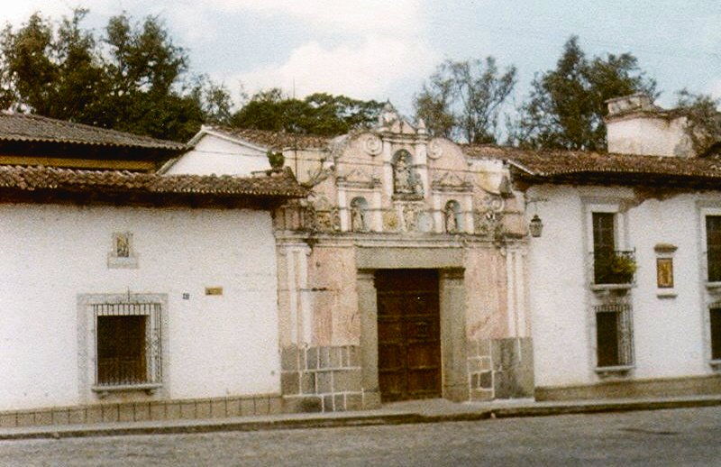 Entrance to Conception Convent, Antigua Guatemala. Built 1694. Photographed 1979.